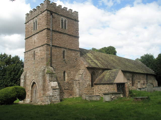 A most handsome church St Catherine, Tugford.